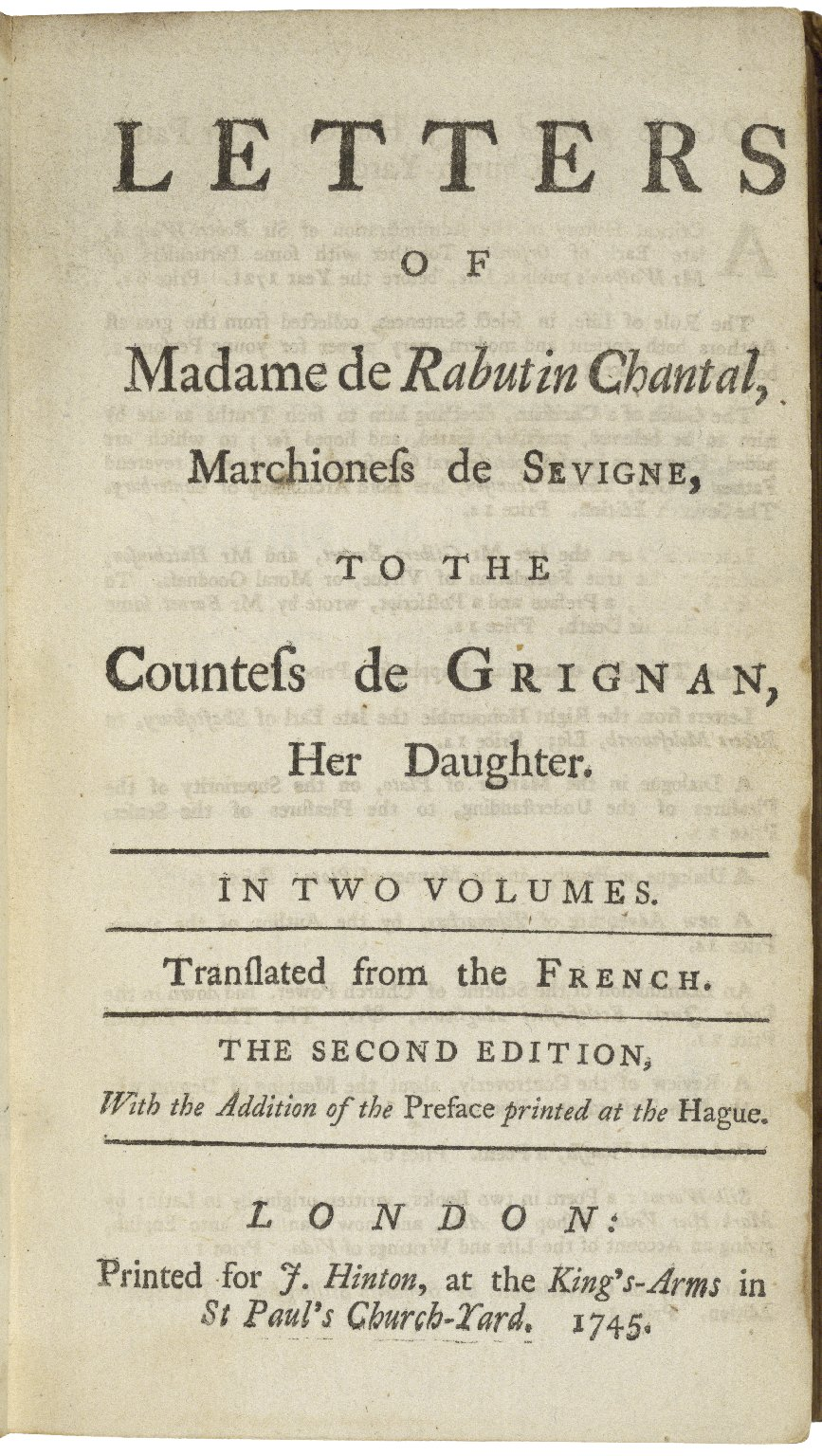 The title page of the 1745 English edition of the letters of Marie de Rabutin-Chantal.